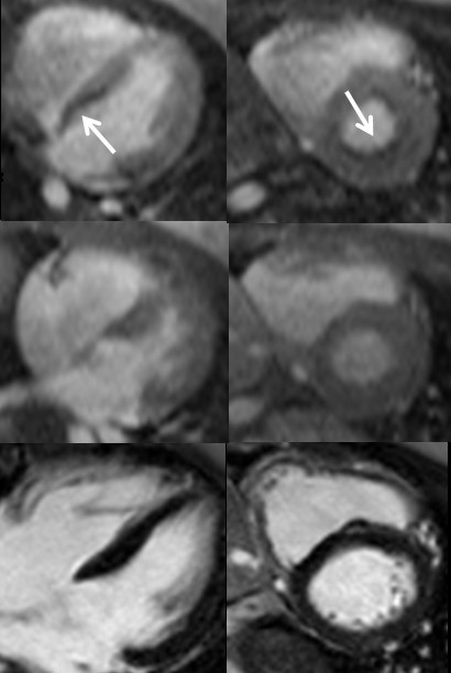 Stress perfusion (top), resting perfusion (middle) and late post-gadolinium imaging shows a significant subendocardial perfusion abnormality, most prominent along the basal inferoseptum as seen in the horizontal long axis (left) and basal short axis (right) planes. Corresponding LGE images show no hyperenhancement in the region of perfusion abnormalities consistent with absence of infarct scar or fibrosis.